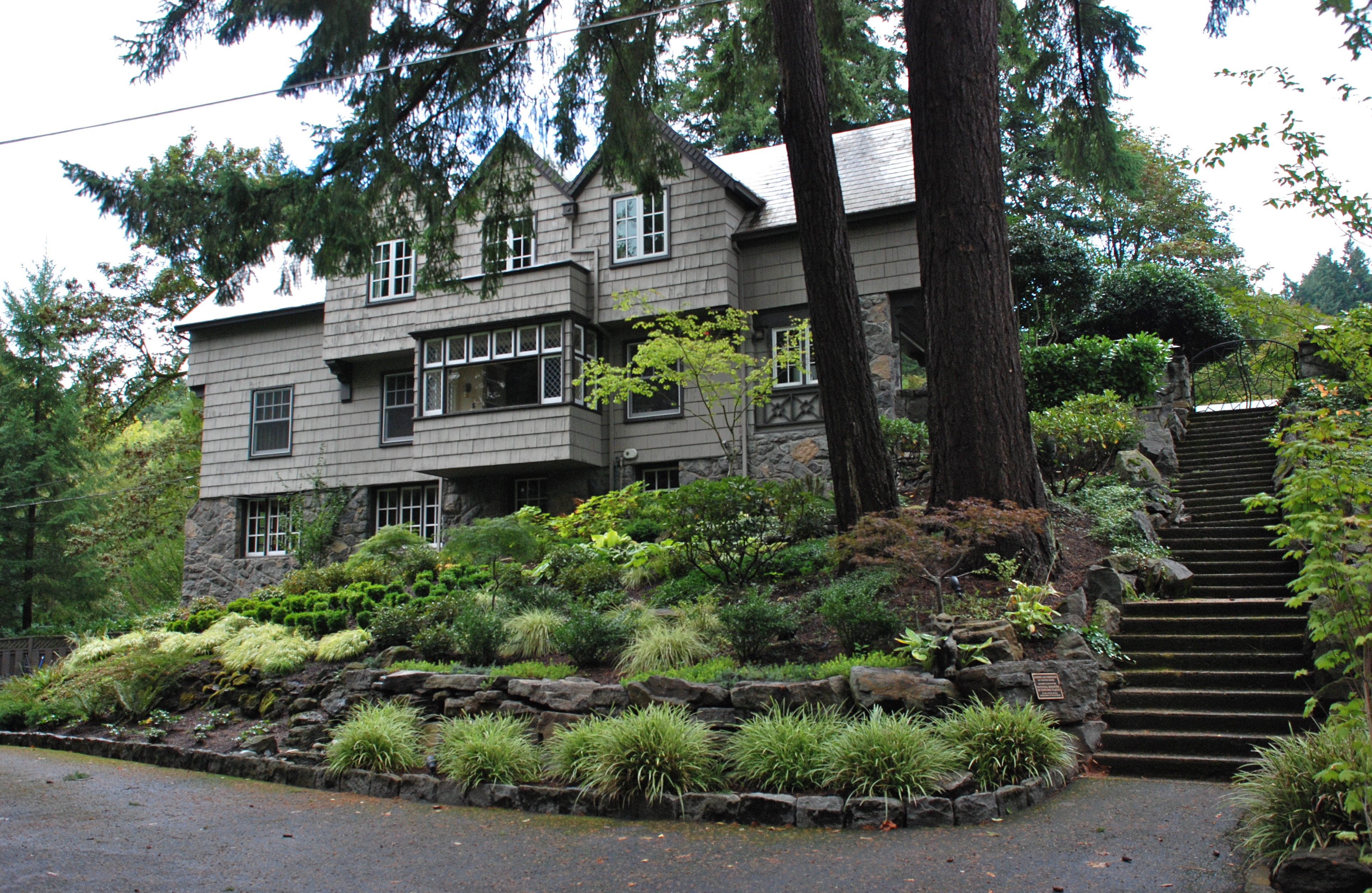 The Joseph Jacobberger Country House, located in the Portland (Oregon) metropolitan area and just west of the city of Portland proper, is listed on the U.S. National Register of Historic Places.